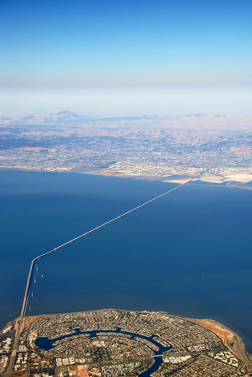 The San Mateo – Hayward Bridge is a bridge crossing California's San Francisco Bay in the United States